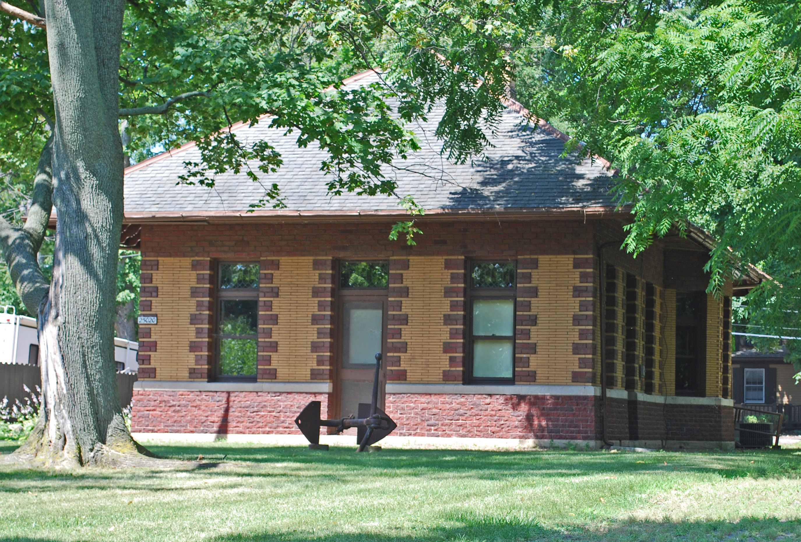 Depot, East River Rd Historic District, Grosse Ile MI